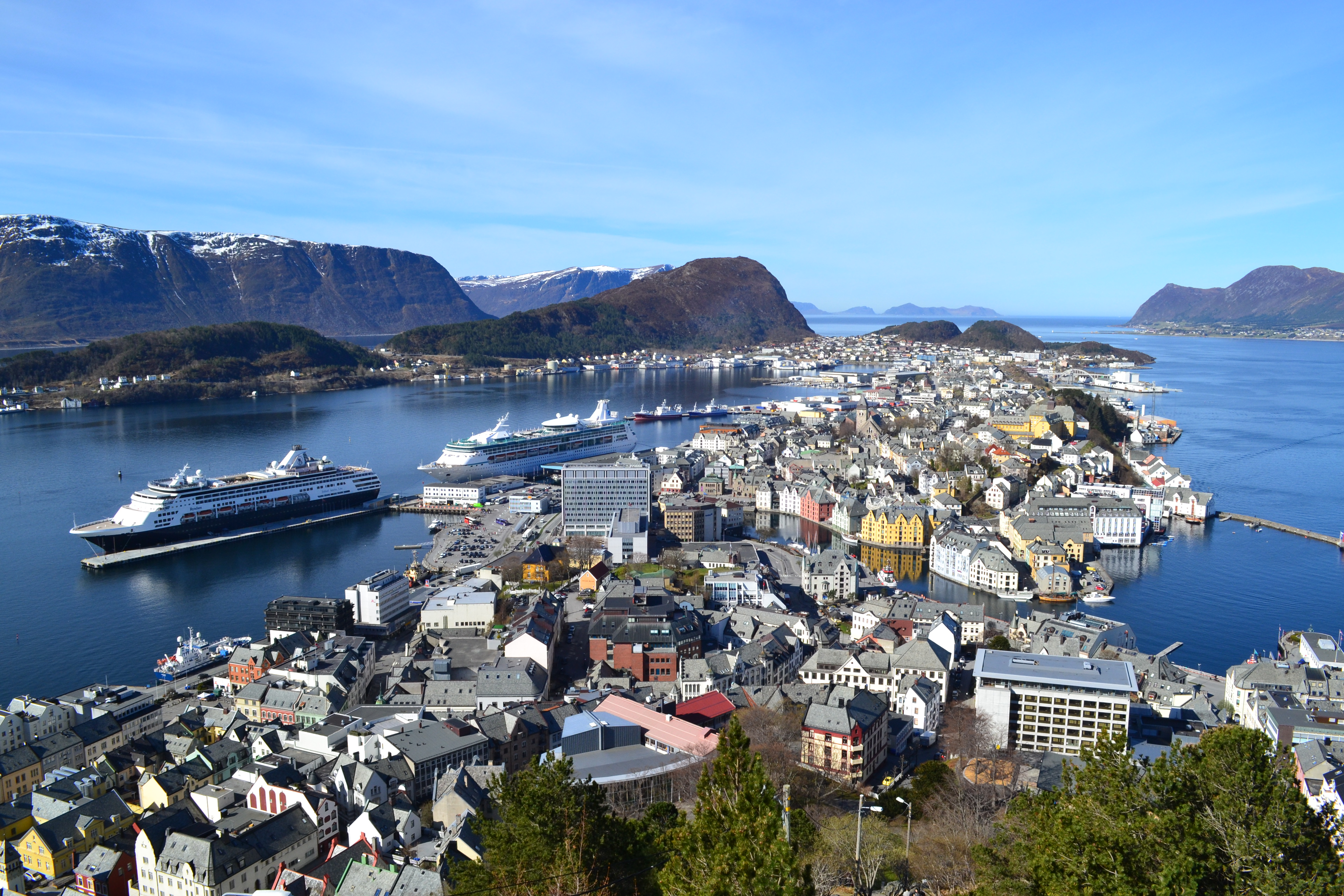 A photograph of Ålesund in May 2013 from the top of Mount Aksla.